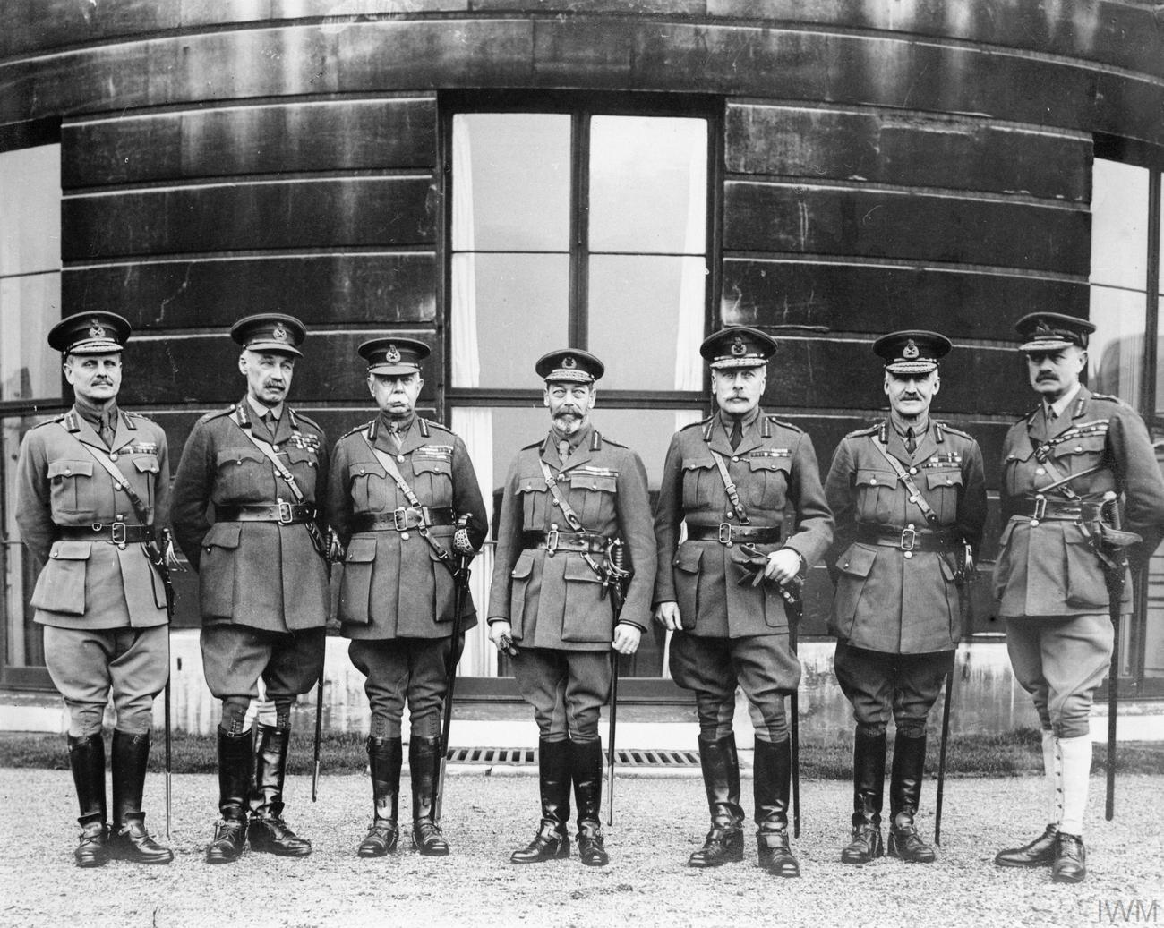 H.m. the King With British Army Commanders at Buckingham Palace. Left to Right: Sir William Birdwood, Sir Henry Rawlinson, Sir Hubert Plumer, H.M. The King, Sir Douglas Haig, Sir Henry Horne, Sir Julian Byng